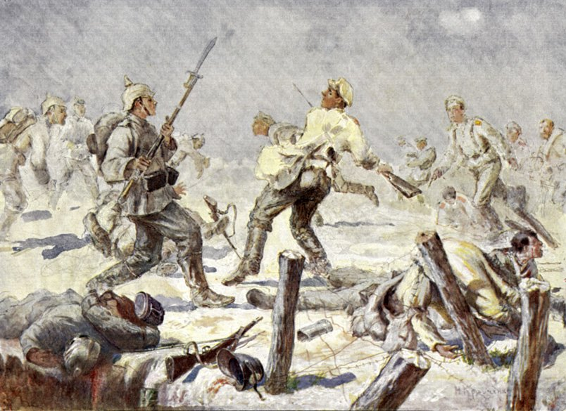 Artist Nikolai Ivanovich Kravchenko. Duel. The painting is dedicated to the memory of the 16th Regiment, Company Vilmanstrandskogo Skierniewice and transmits the bravery of our infantry // The Great War in the pictures. Publisher Golike and Vilborg. Pg., 1917